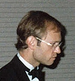 David Hyde Pierce at the Governor's Ball after the 1995 Emmy Awards - September 10, 1995 - Permission granted to copy, publish, broadcast or post but please credit "photo by Alan Light" if you can